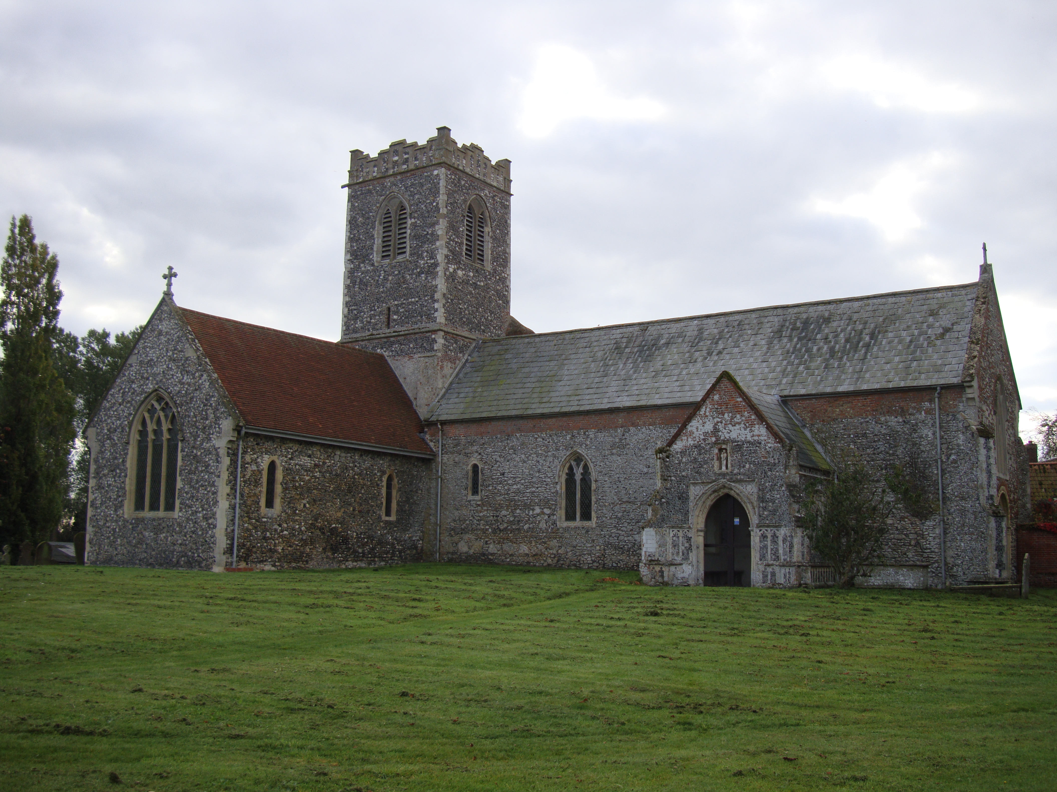 Photograph of St Mary's Parish Church, Aldeby, Norfolk; probably used by Aldeby Priory in absence of a conventual church